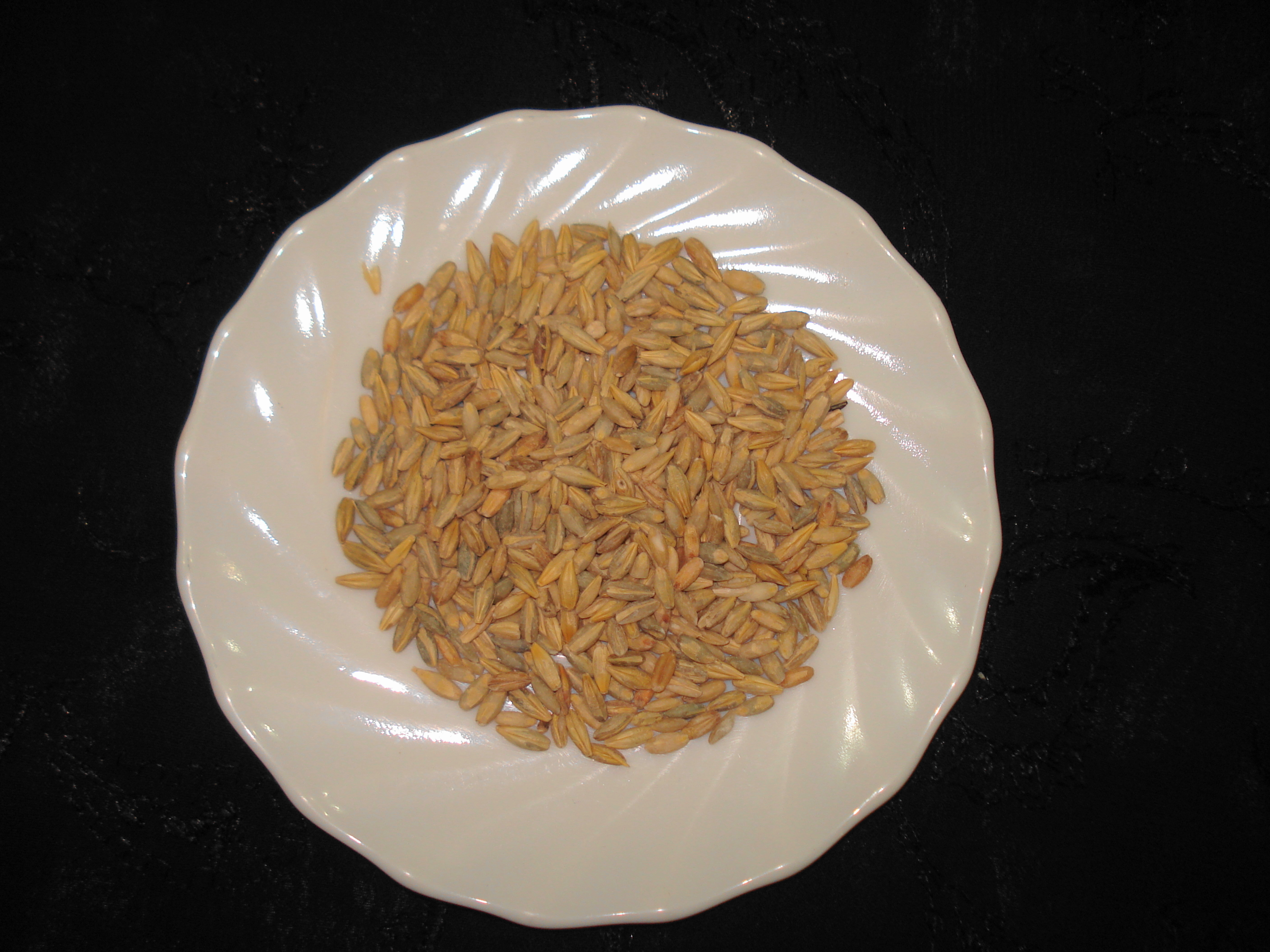 Barley grains, Pakistan